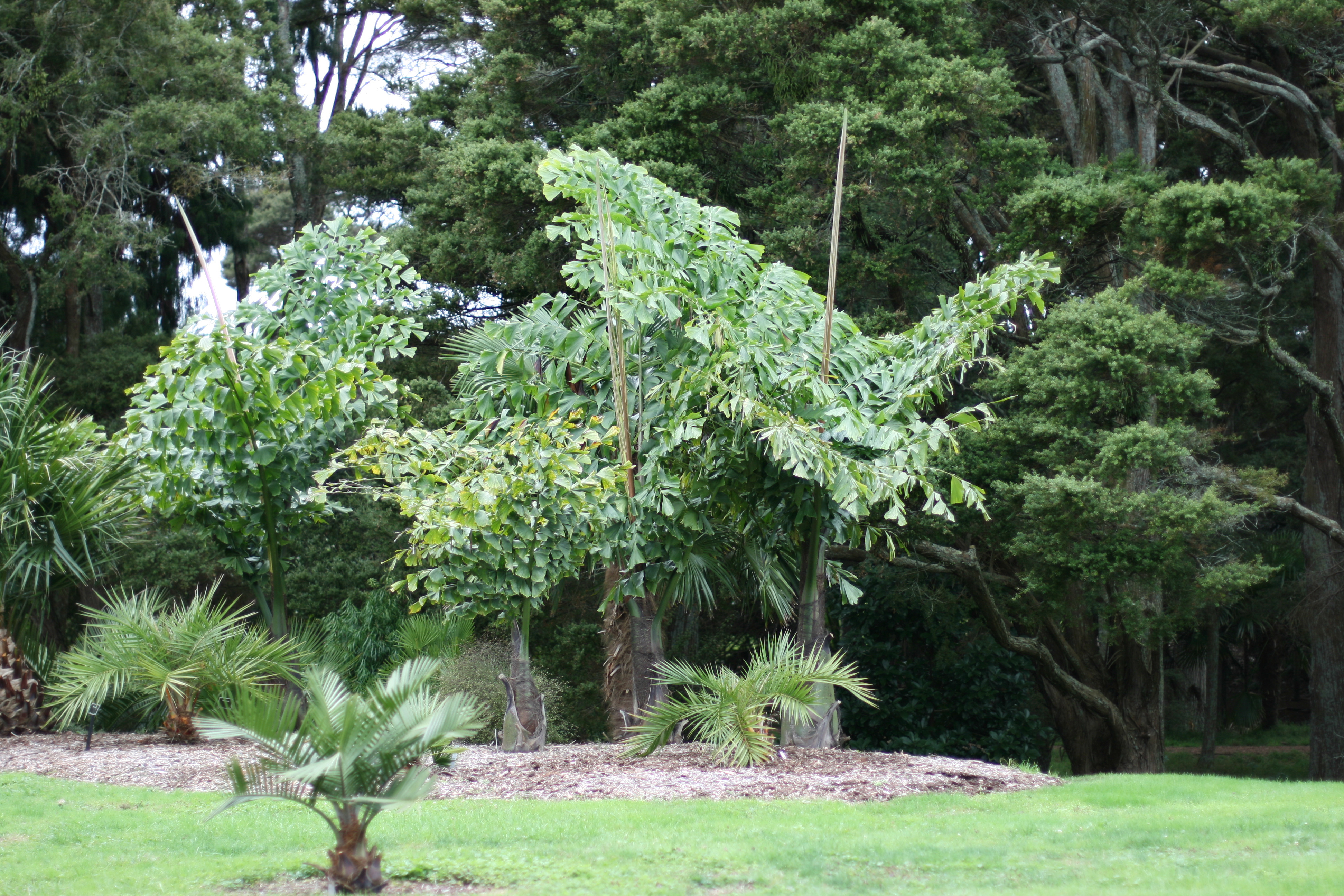 Four young specimens of Caryota obtusa, Auckland Botanic Gardens, Manukau City, New Zealand.